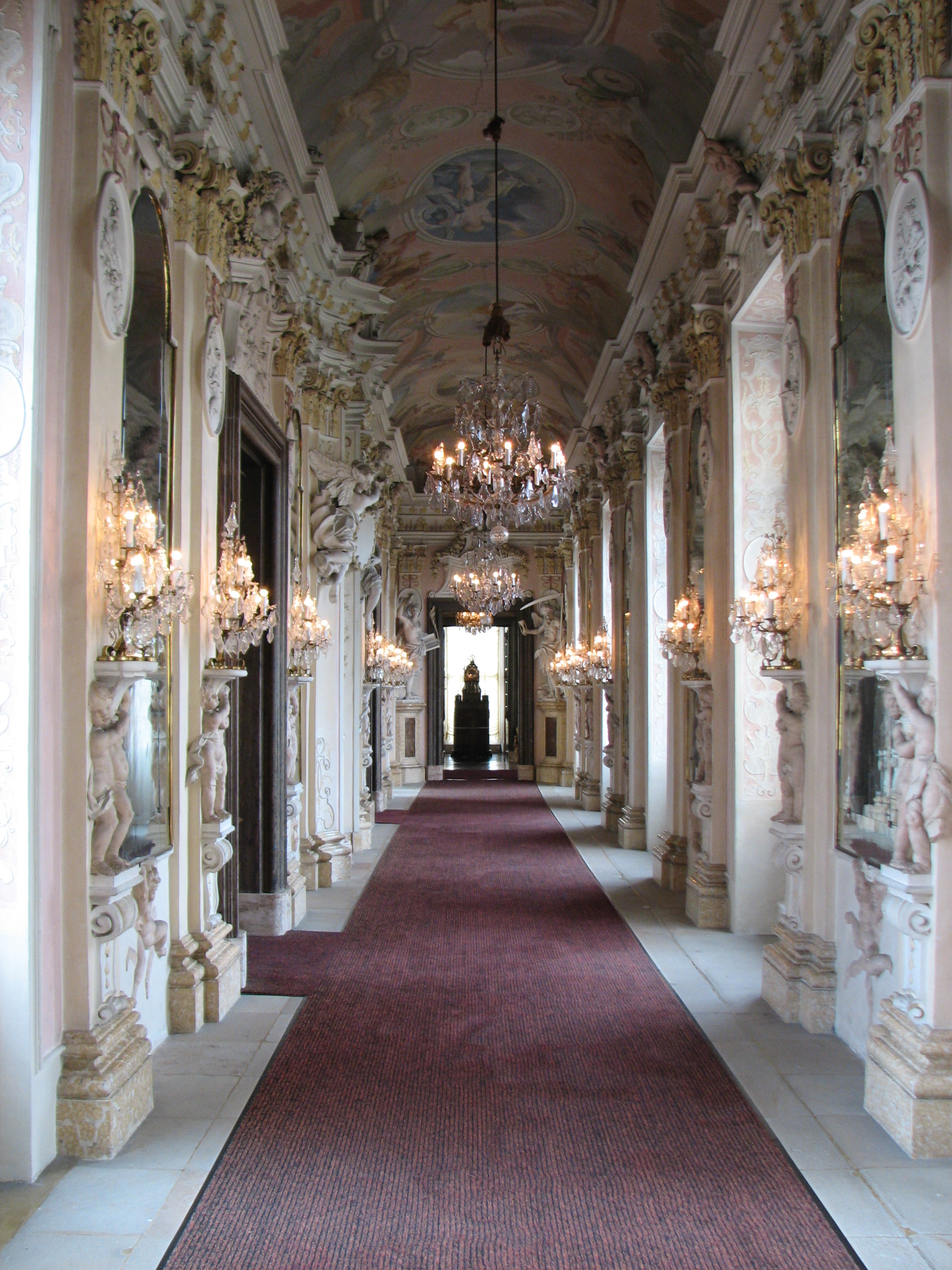 Ludwigsburg, Baden-Württemberg, Germany